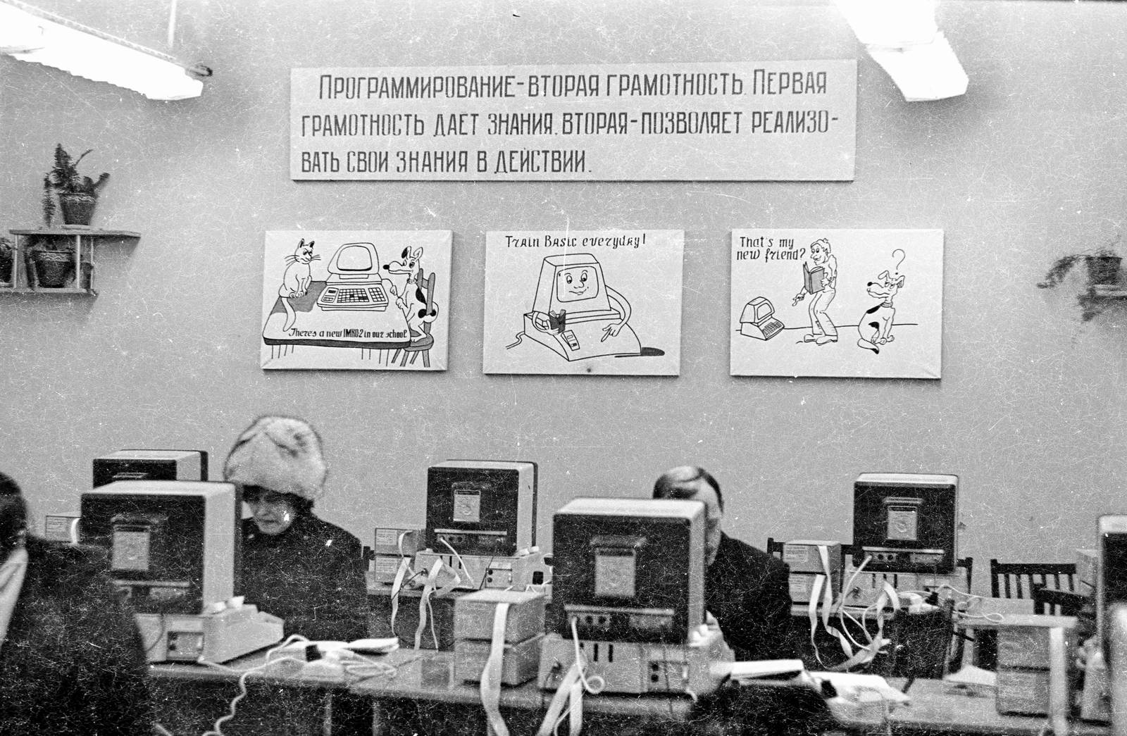 The slogan on the wall: "Programming is the second literacy. The first one gives you knowledge: the second allows you to implement it in practice." — The first winter computer class for children (1985-6), a class at Chkalovski Village School No. 2, using "Pravets 82" computers. On the photo, unidentified school workers are familiarizing themselves with computers. In winter, a class was held here for children and adults. There were no exams: children were graded for creative works, and adults were not graded at all. Classes were conducted by young members of Institute of Software Systems: Pinchuks, Nesterovs, Gryaznovs, Vyacheslav Kryukov, Leonas, Lucy Gaidar, Chernyshenko.) (Translated from the Russian by JohnChrysostom and User:95.26.253.91